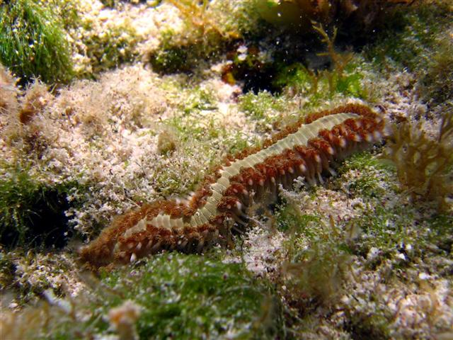 Colin Ackerman, Grand Cayman 2006